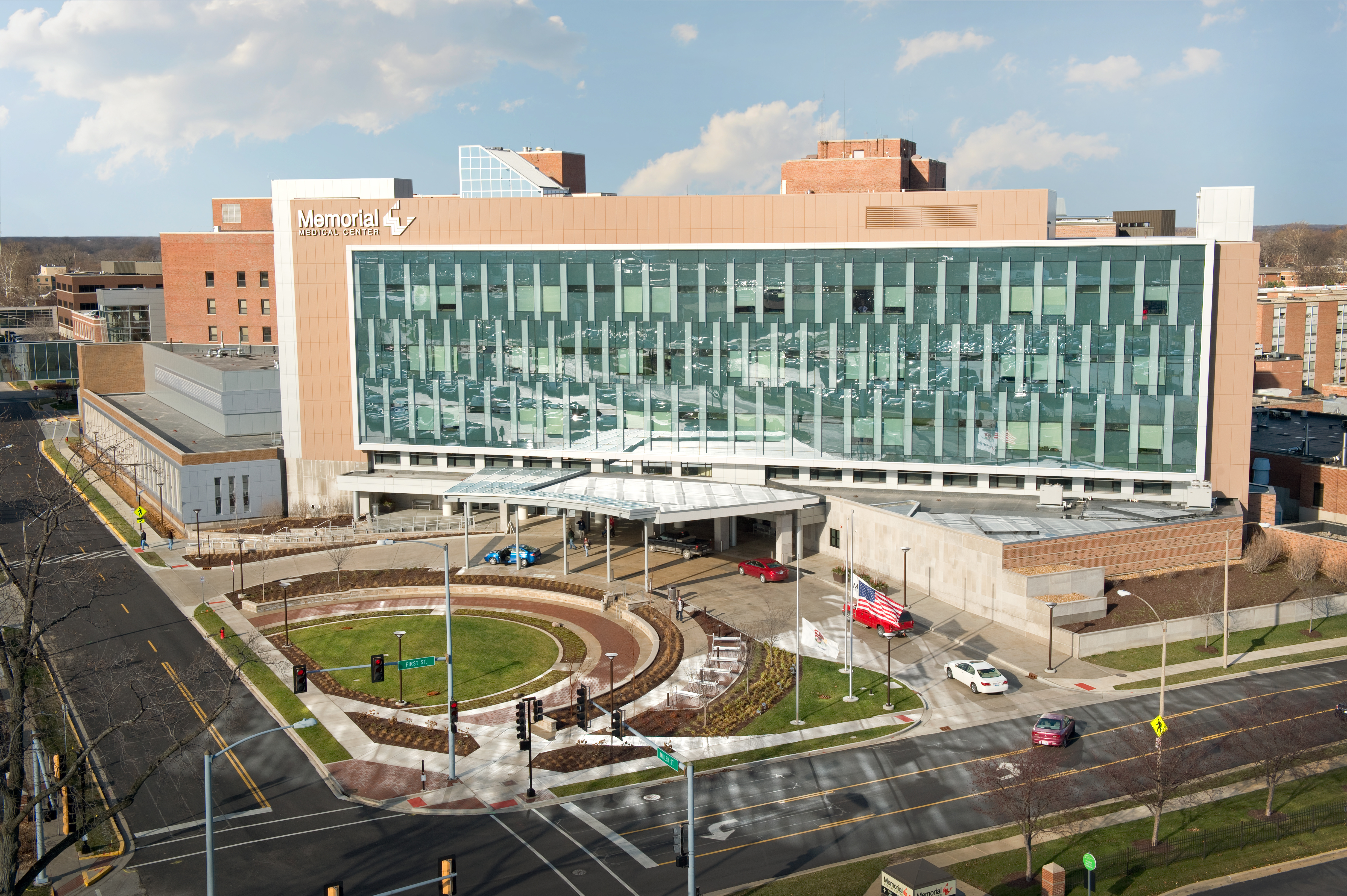 Memorial Medical Center, from 1st Street and Miller Street, Springfield, Illinois